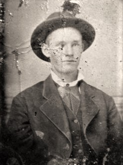 Photo of Robert Woodson "Wood" Hite